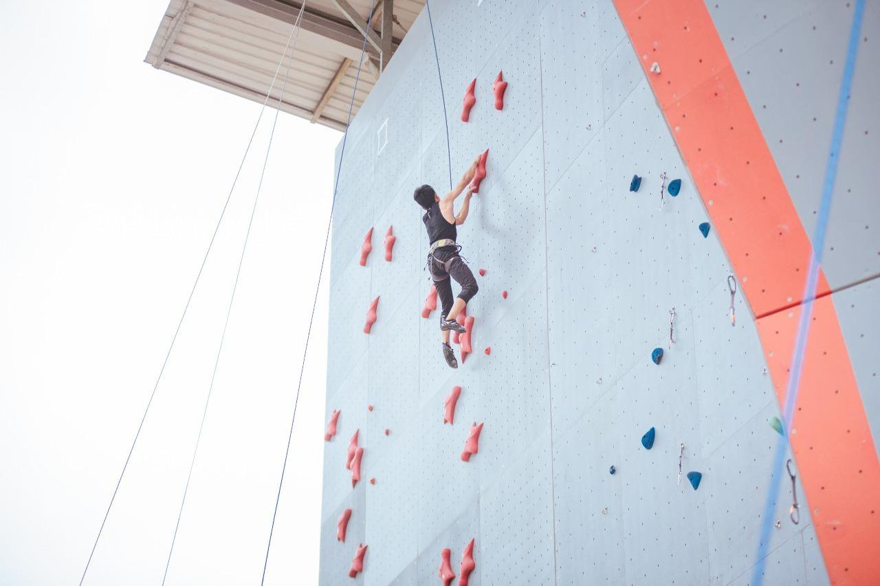 Mountain Climibing facility in Kalinga Stadium, Bhubaneswar, The government of Odisha has released all of its social media posts under a free Creative Commons license, allowing people from around the world to freely re-use the government’s content in projects like Wikipedia. Visit here for details